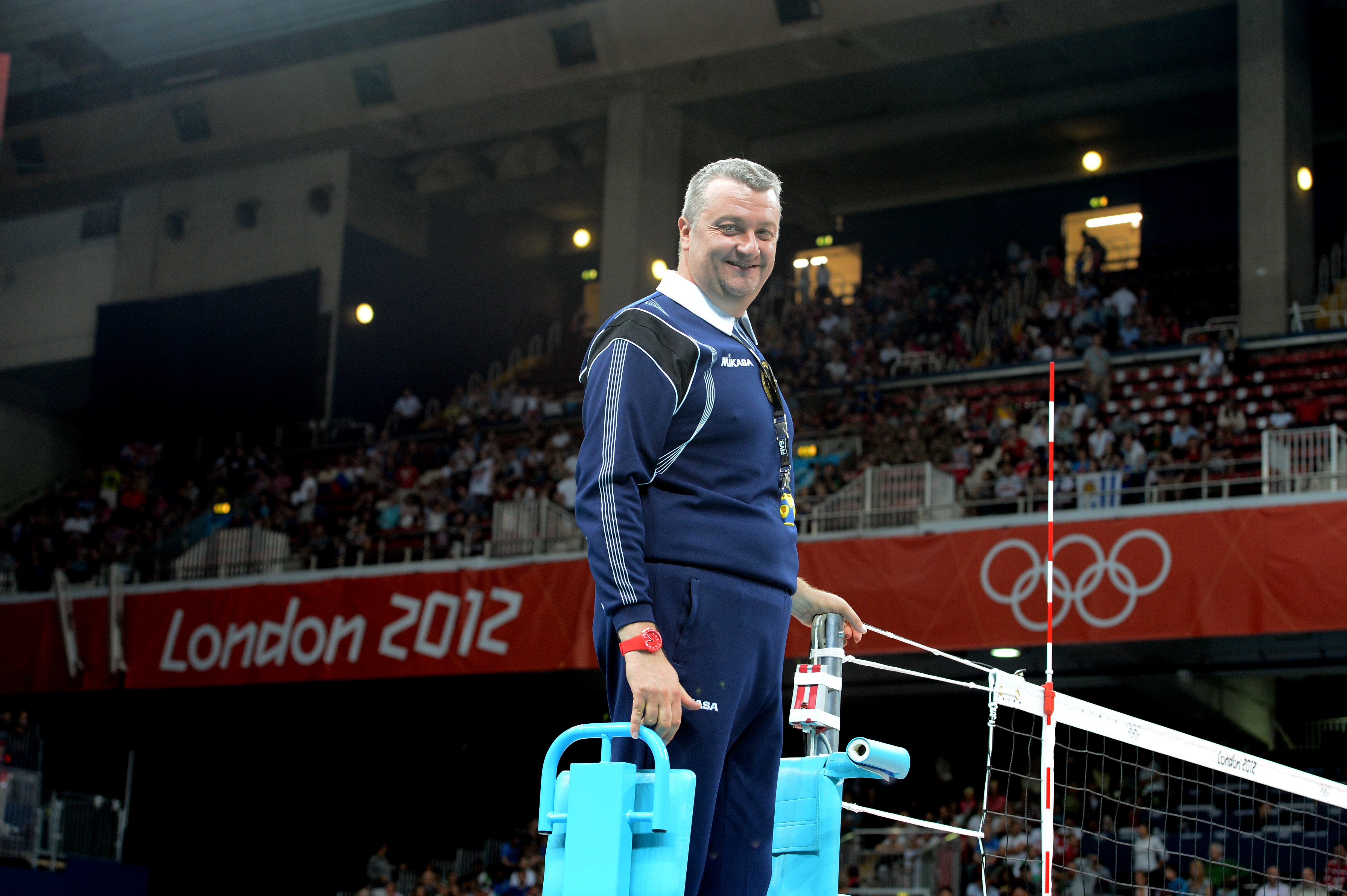 Simone Santi alle Olimpiadi di Londra 2012